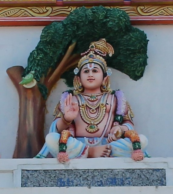 Nammazhwar